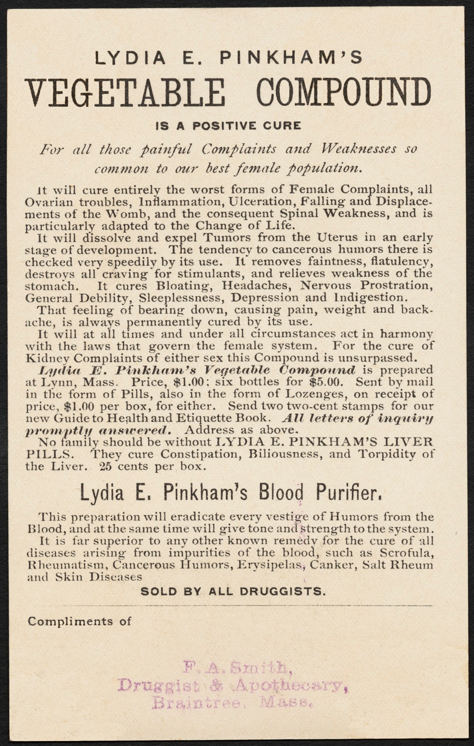 File name: 10_03_001373b Binder label: Medical Title: Lydia E. Pinkham's grandchildren (back) Created/Published: Boston : Forbes Co. Date issued: 1870-1900 (approximate) Physical description: 1 print : chromolithograph ; 13 x 9 cm. Subject: Girls; Patent medicines Notes: Title from item. Retailer: F. A. Smith, Braintree, Mass. Collection: 19th Century American Trade Cards Location: Boston Public Library, Print Department Rights: No known restrictions.